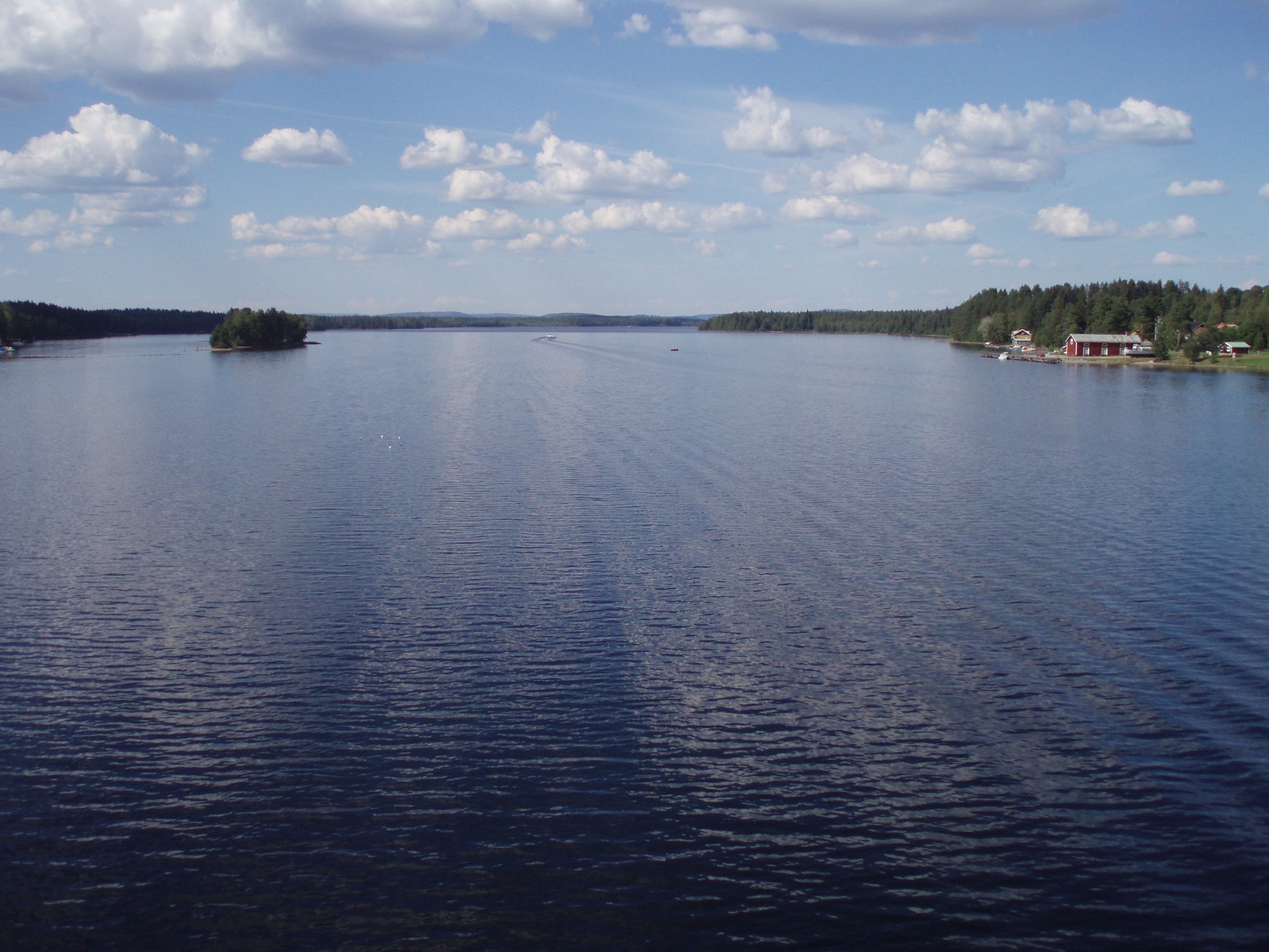 Ströms Vattudal, Strömsund, Sweden. Photo taken in aug. 2006 by me - User:Cucumber